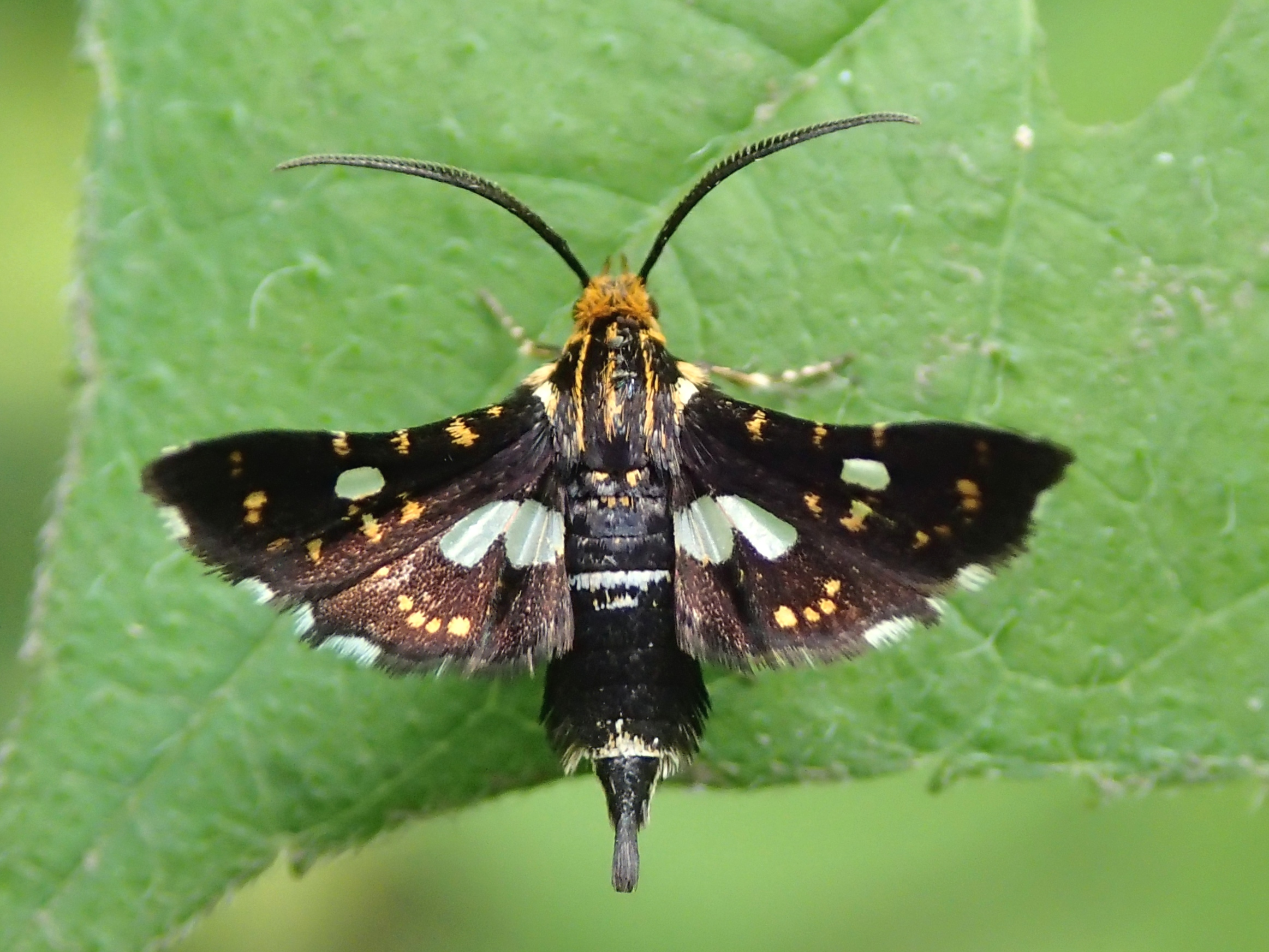 Thyris usitata Butler, 1879 (Thyrididae), male. Yokohama, Kanagawa, Japan.